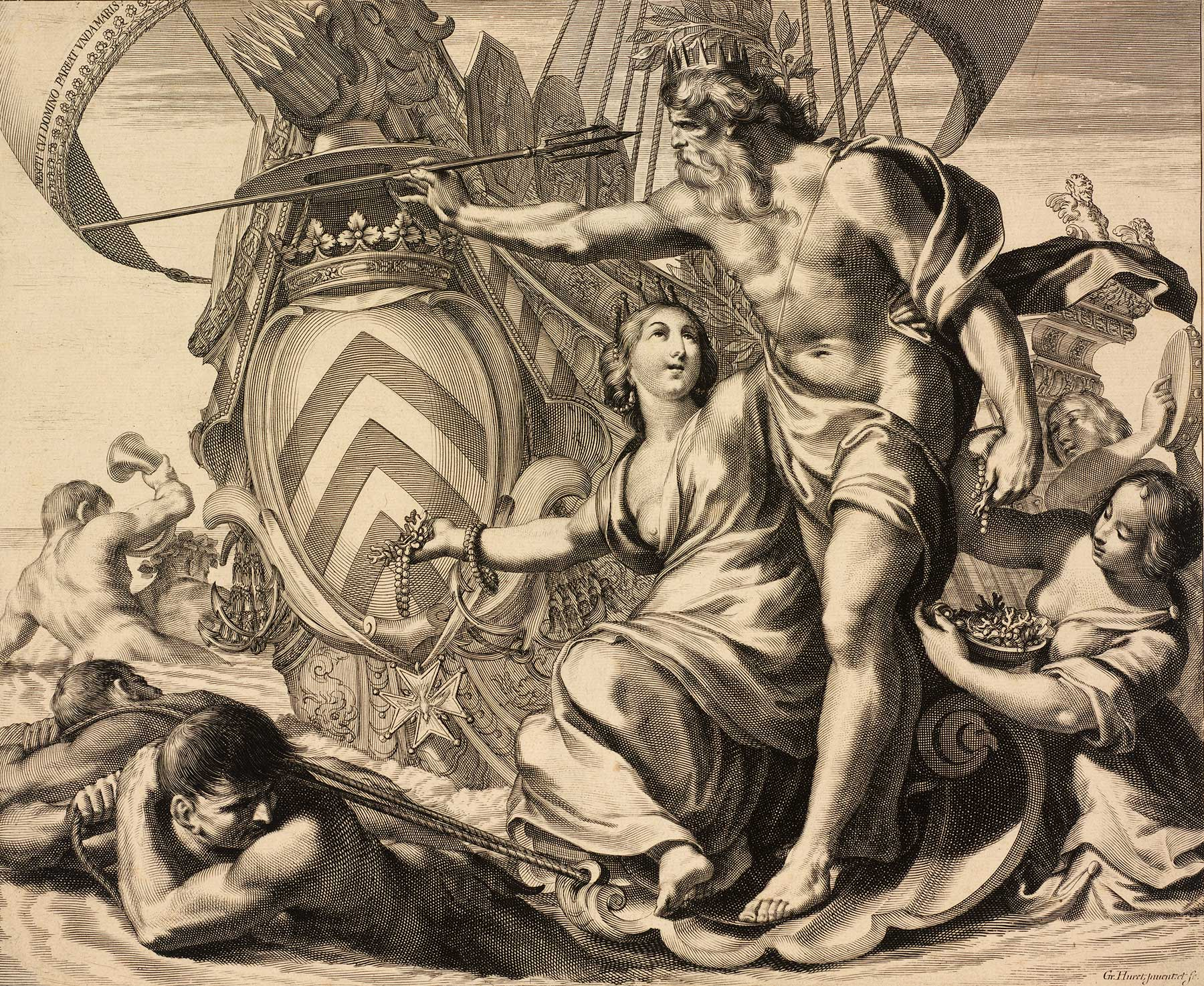 Neptune and Thetis Carrying the Riches of the Empire to Cardinal Richelieu by Grégoire Huret